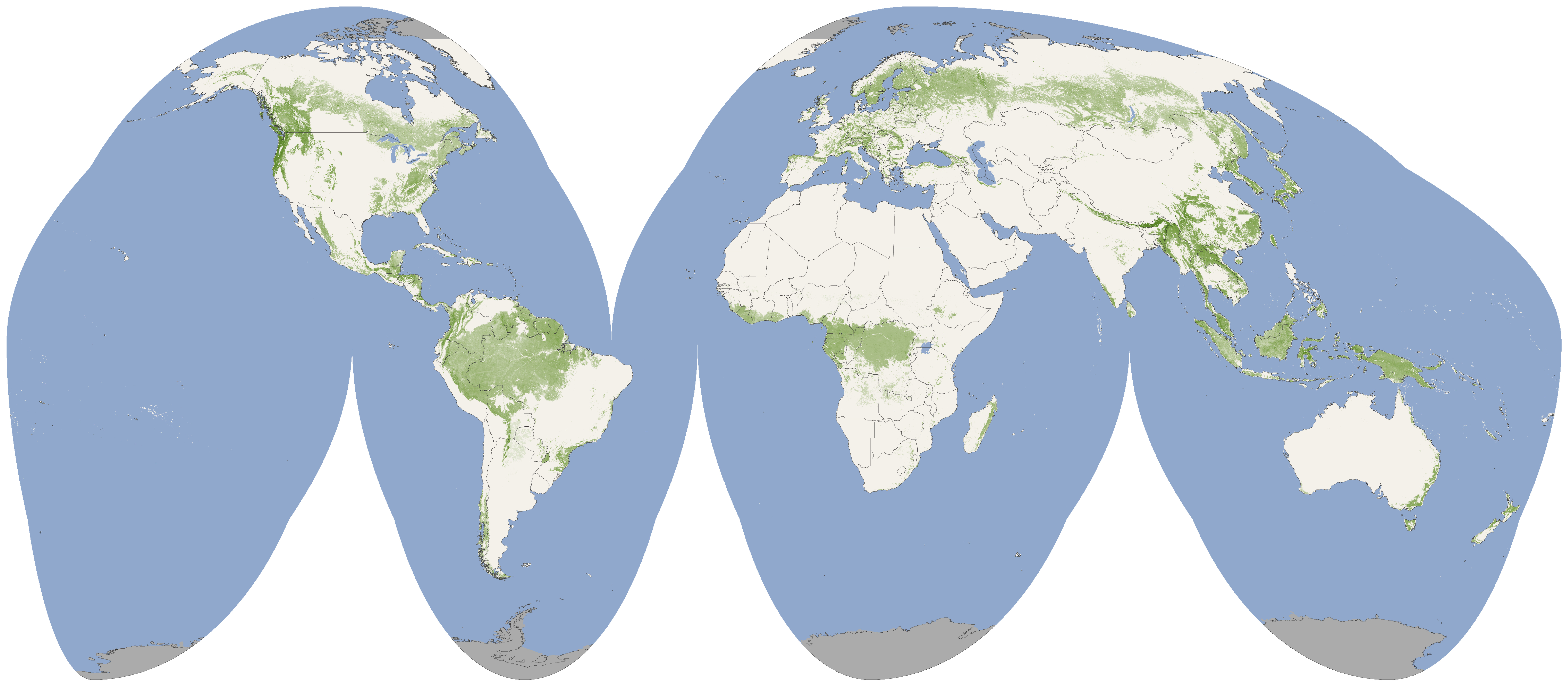 A first-of-its-kind global map shows forest canopy height in shades of green from 0 to 70 meters (230 feet). For any patch of forest, the height shown means that 90 percent or more of the trees in the patch are that tall or taller. Created from data taken by NASA satellites ICESat, Terra and Aqua.